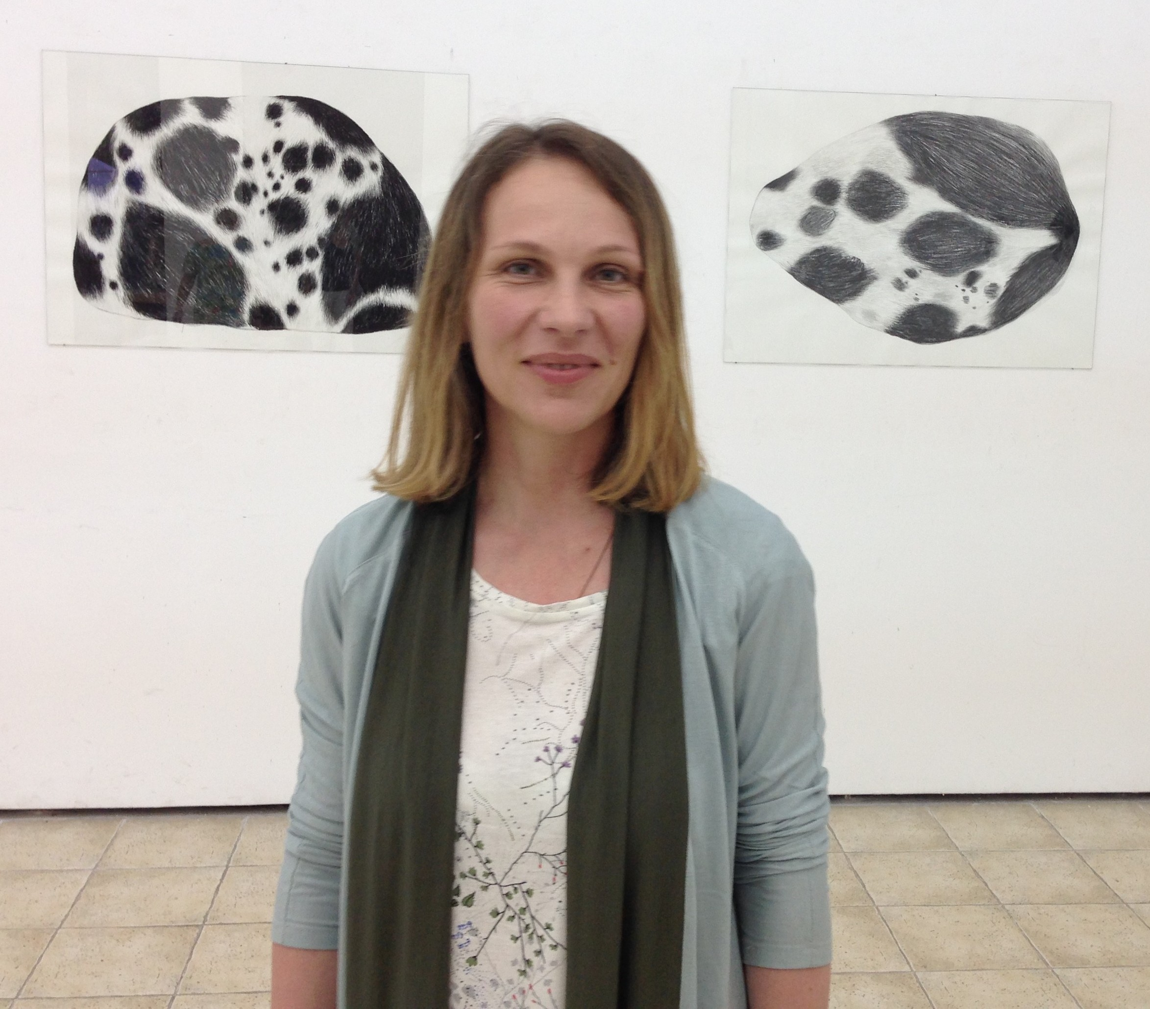 Marion Dedic, Serbian painter. The Gallery of Contemporary Fine Arts Niš. Solo exhibition, drawing, 2017. Srpski (latinica): Marion Dedić, srpska umetnica, na otvaranju samostalne izložbe u Galeriji SLU u Nišu, 2017.